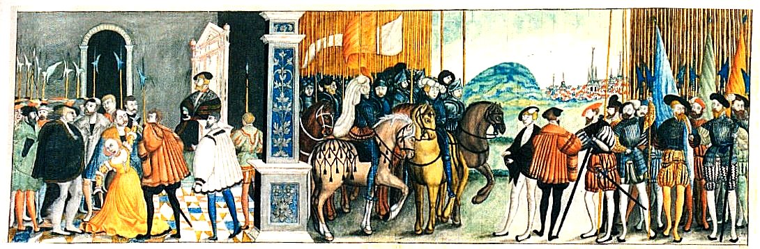 Part three of a five part series of now destroyed paintings. The motiv is unknown, based upon the costumes the images must have been made in the 1540's. OBS! These images are much debated and there is no proof that this particular painting depicts Västerås riksdag 1527.